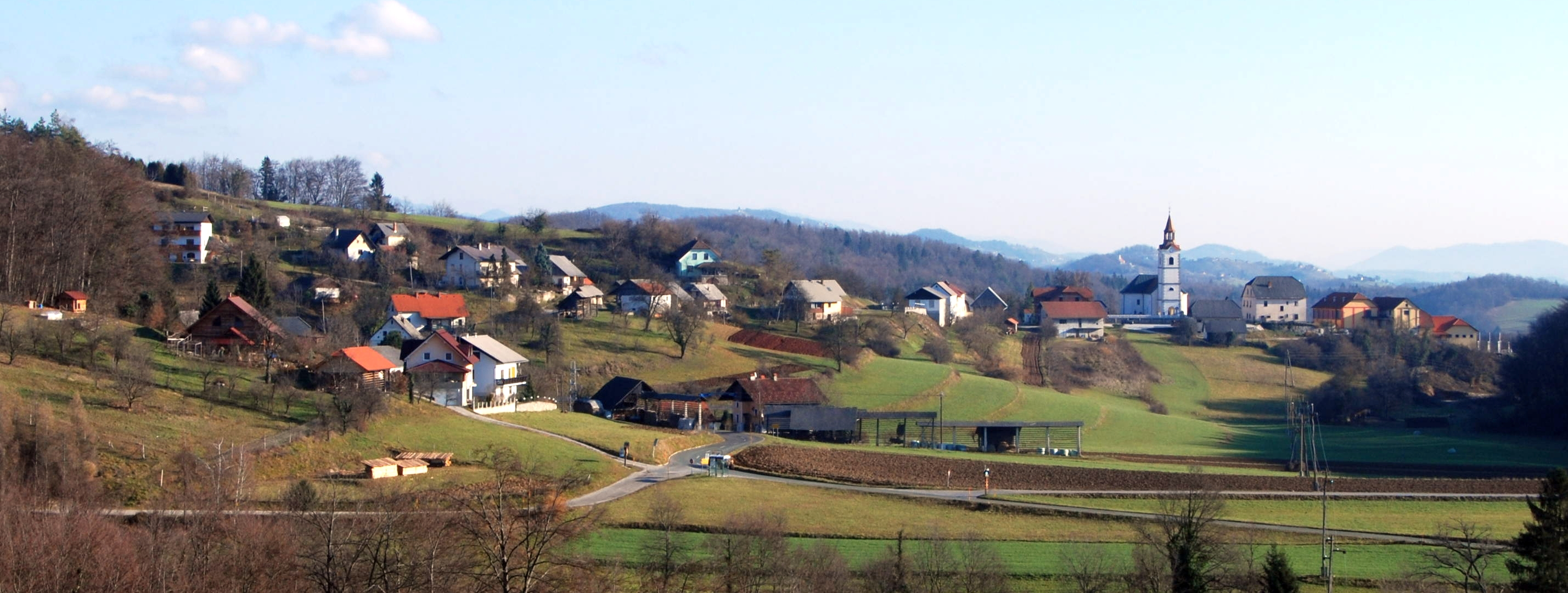 Čatež, a village in the Municipality of Trebnje, southeastern Slovenia.